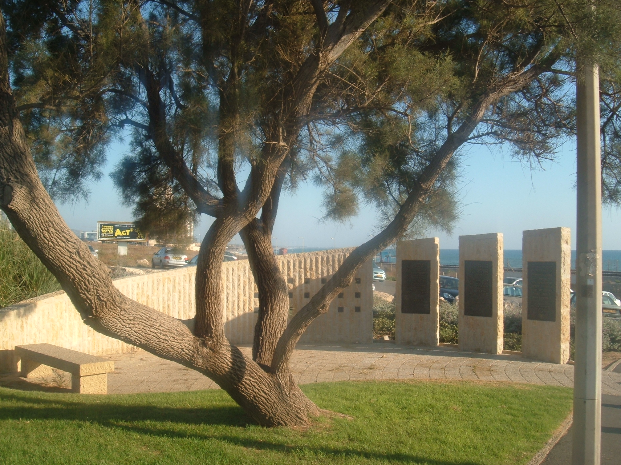 monument in memory of those killed in Maxim restaurant suicide bombing, Haifa, Israel אנדרטה לזכר ההרוגים בפיגוע במסעדת מקסים